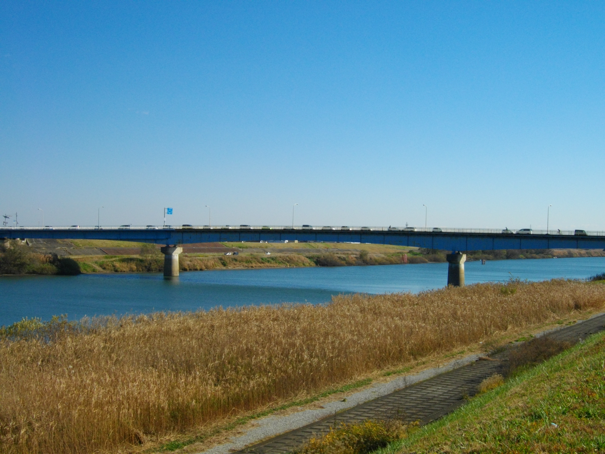 Sakae Bridge over the Tone River)